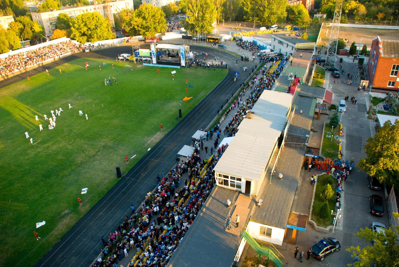 Elektrometalurh Stadium in Nikopol, Dnipropetrovsk Oblast, Ukraine